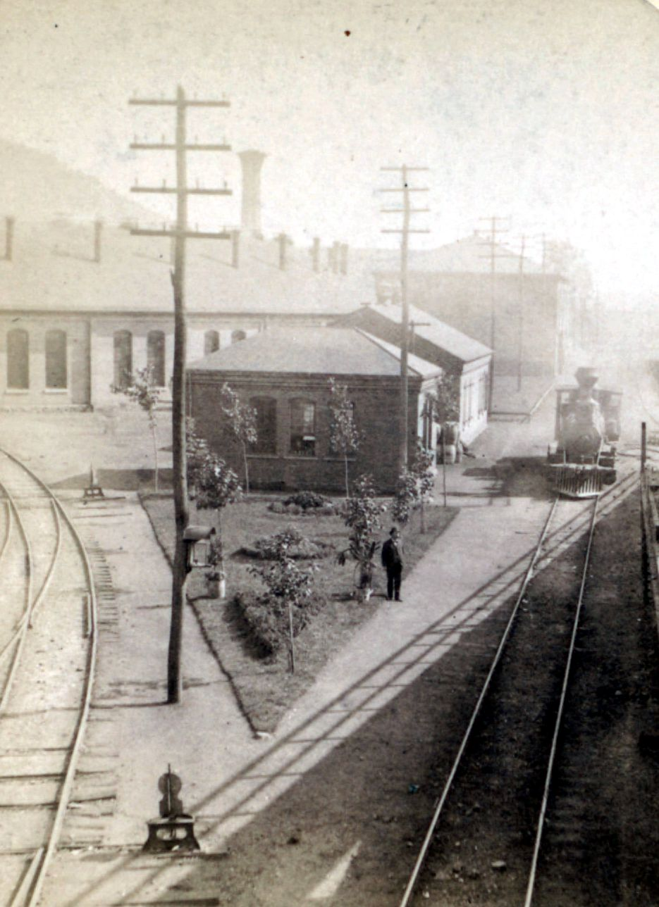 Erie Railroad yard, showing locomotive and switching yard, by W. L. Sutton (section)